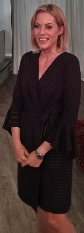 Jule Gölsdorf is a German television presenter, journalist and author